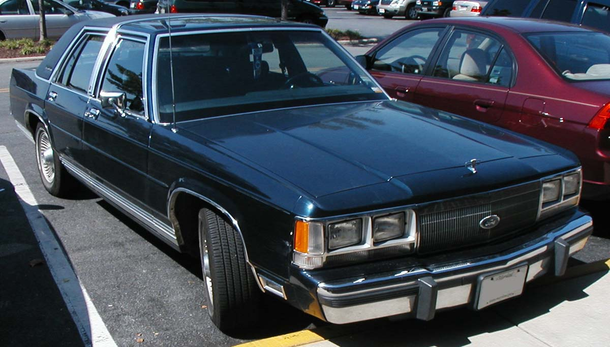 1988-1991 Ford LTD Crown Victoria photographed in USA.